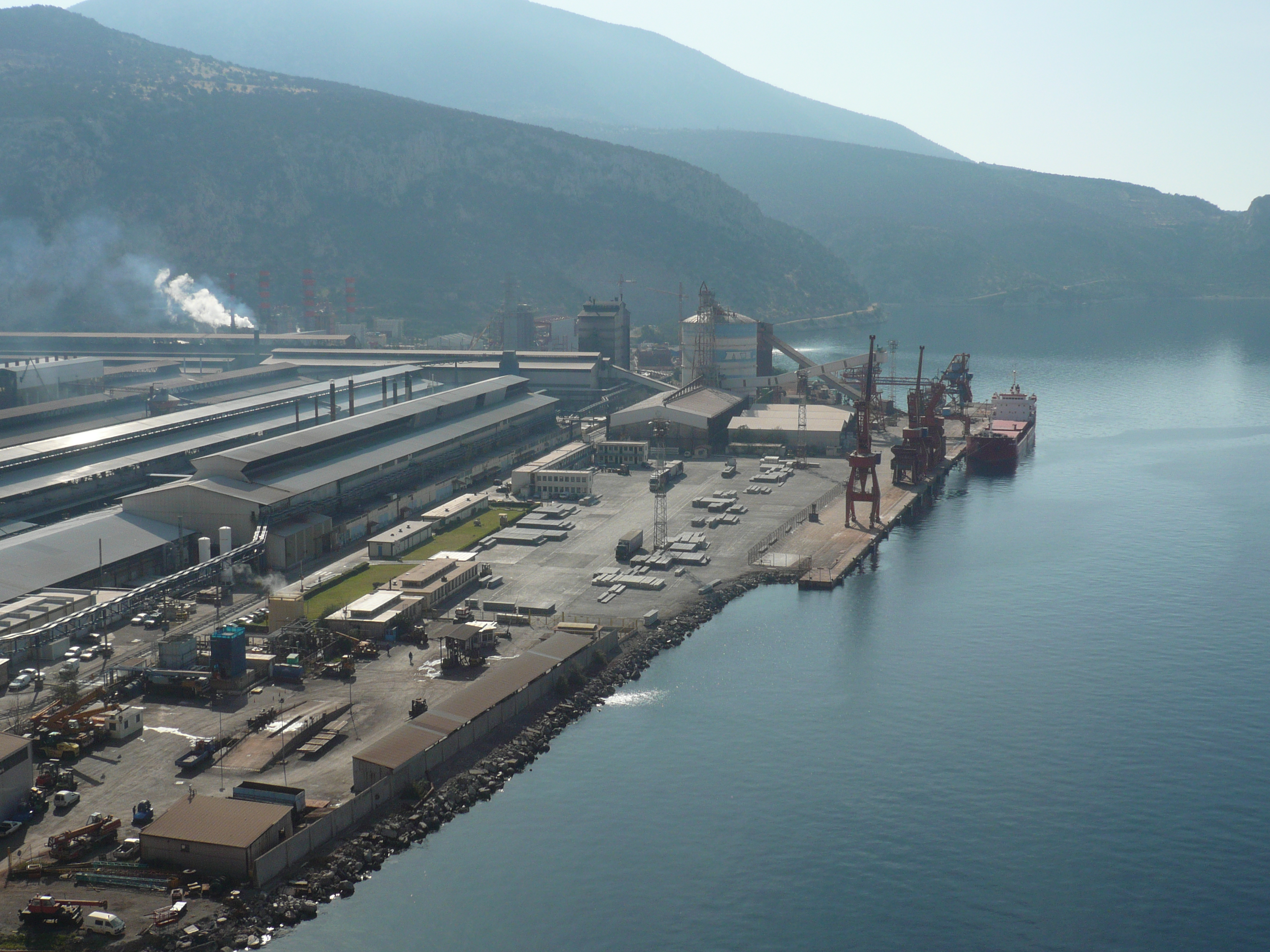 Saint Spyridon port in Aluminium de Grece, Greek aluminum company